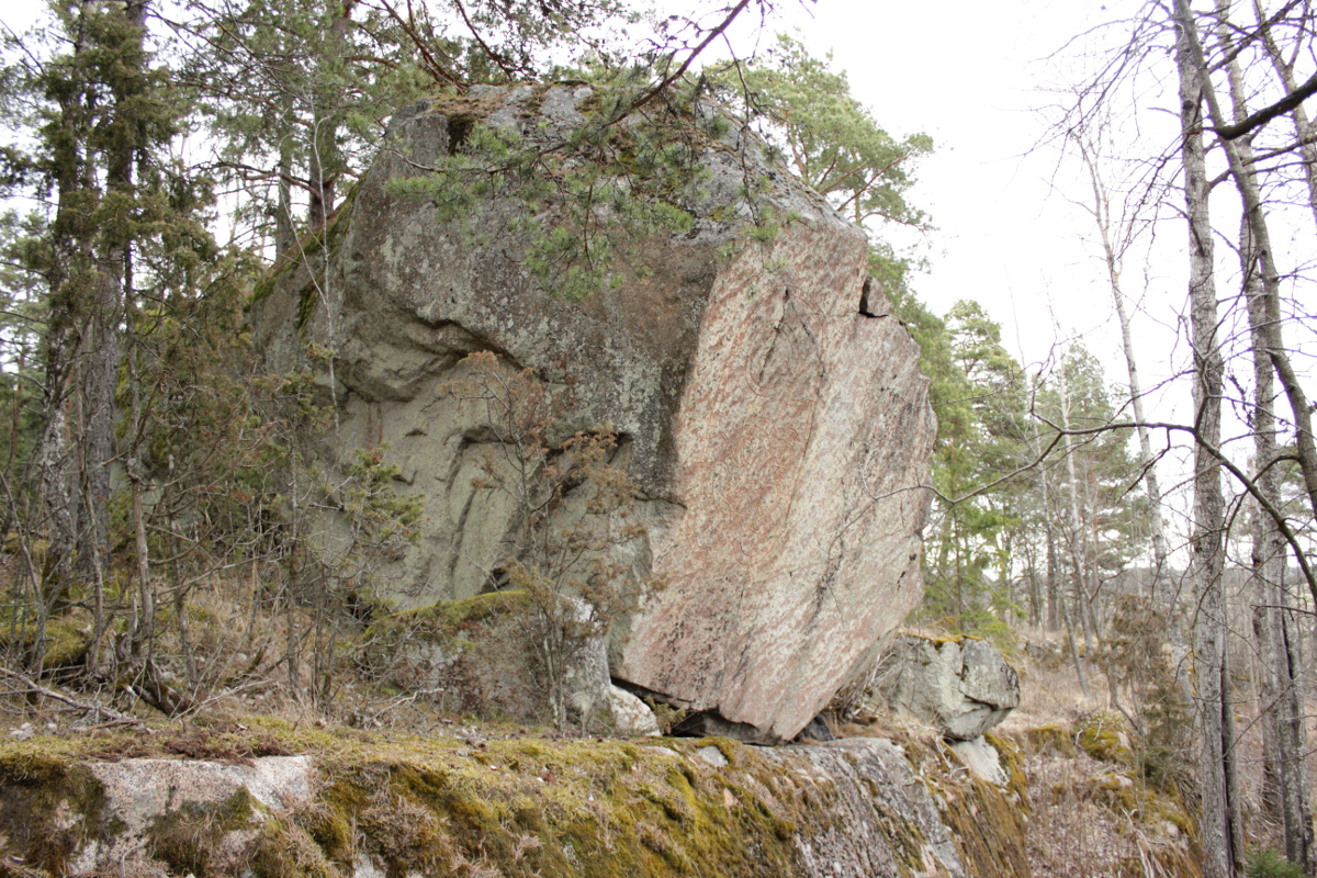 Stone on which U879 is carved in.